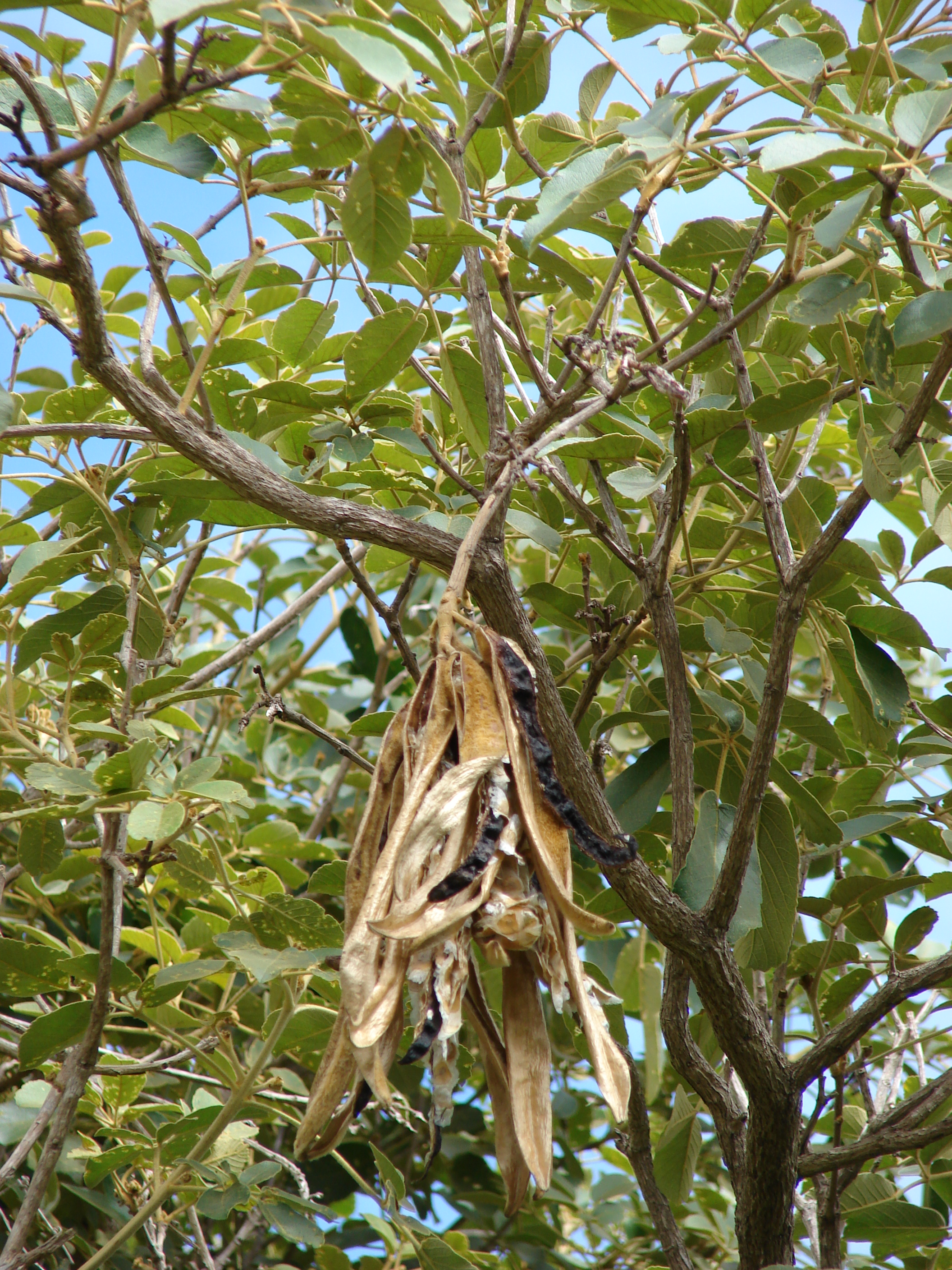 Tabebuia serratifolia (splitting seedpods). Location: Maui, Enchanting Gardens of Kula